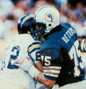 San Diego Chargers center Don Macek (left) blocking Miami Dolphins defensive end Doug Betters (right) in an offensive play during the 1981 AFC Divisional Playoff Game on January 2, 1982.